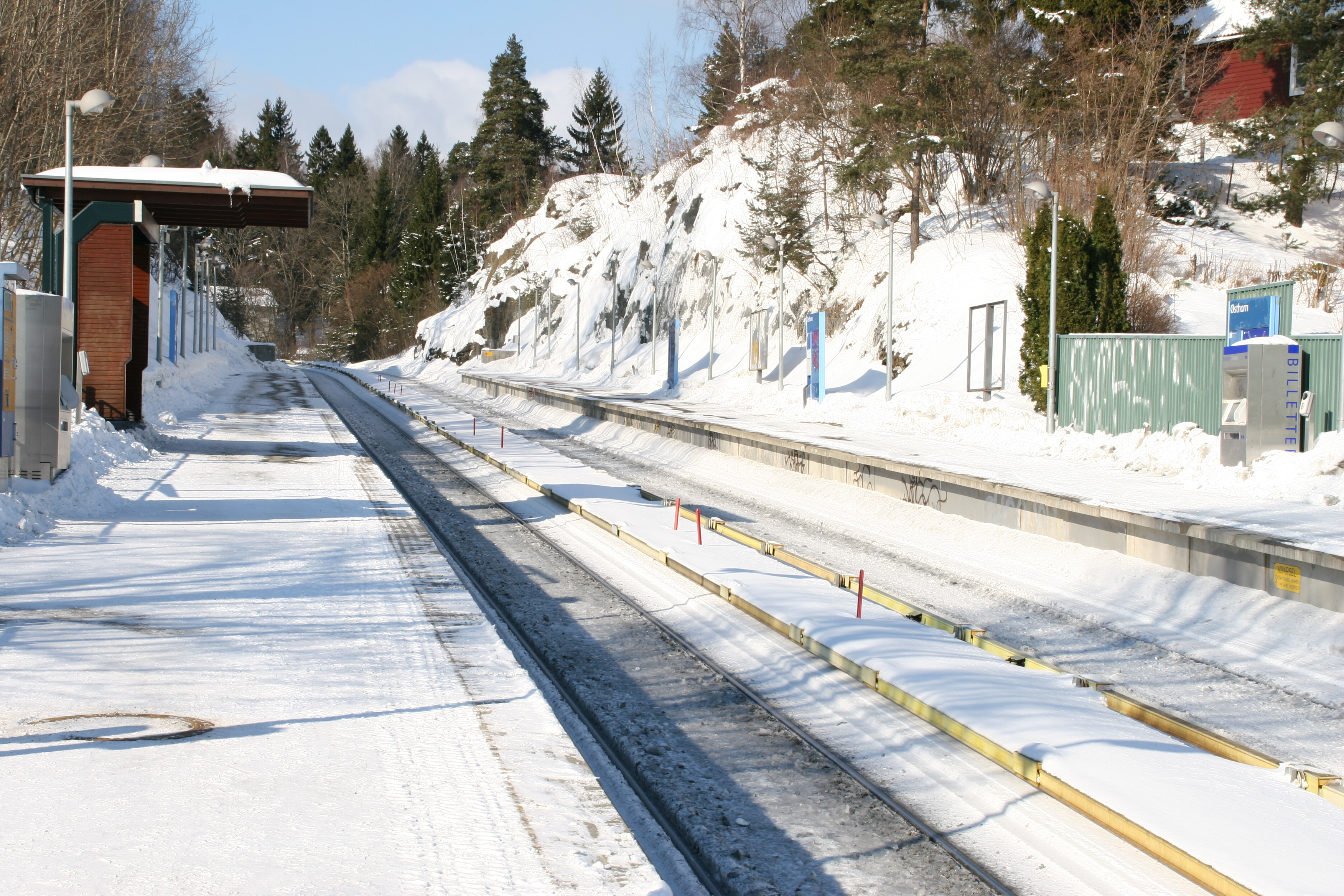 The Østhorn subway station in Oslo, Norway. Date: 2006-03-10. Photographer: eao.